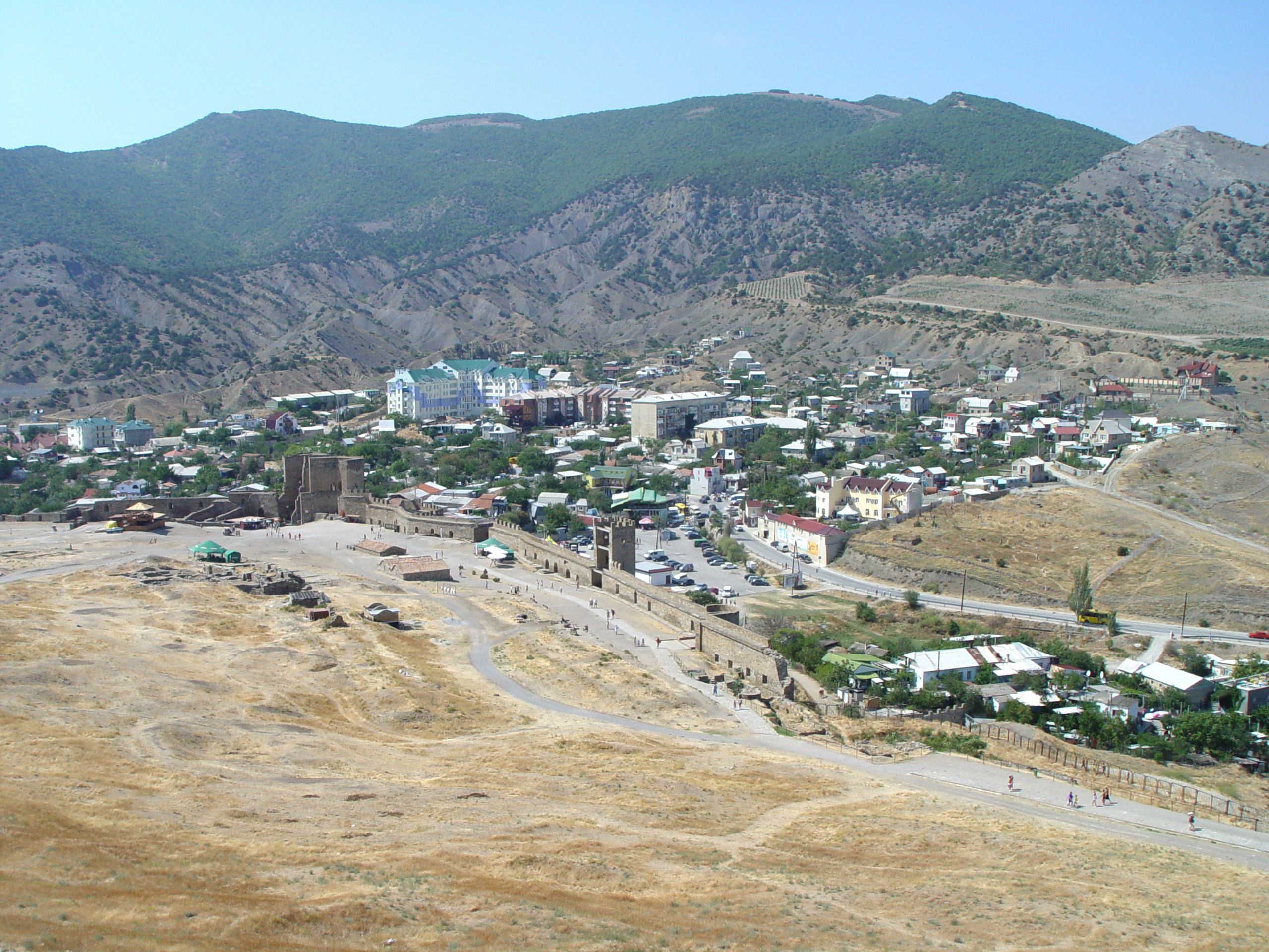 View on courtyard of Genoese fortress in Sudak. In the left part shown the gate (towers of Bernabo di Franchi di Pagano and Iacobo Torsello). In center of picture there is tower of Pasquale Judice.